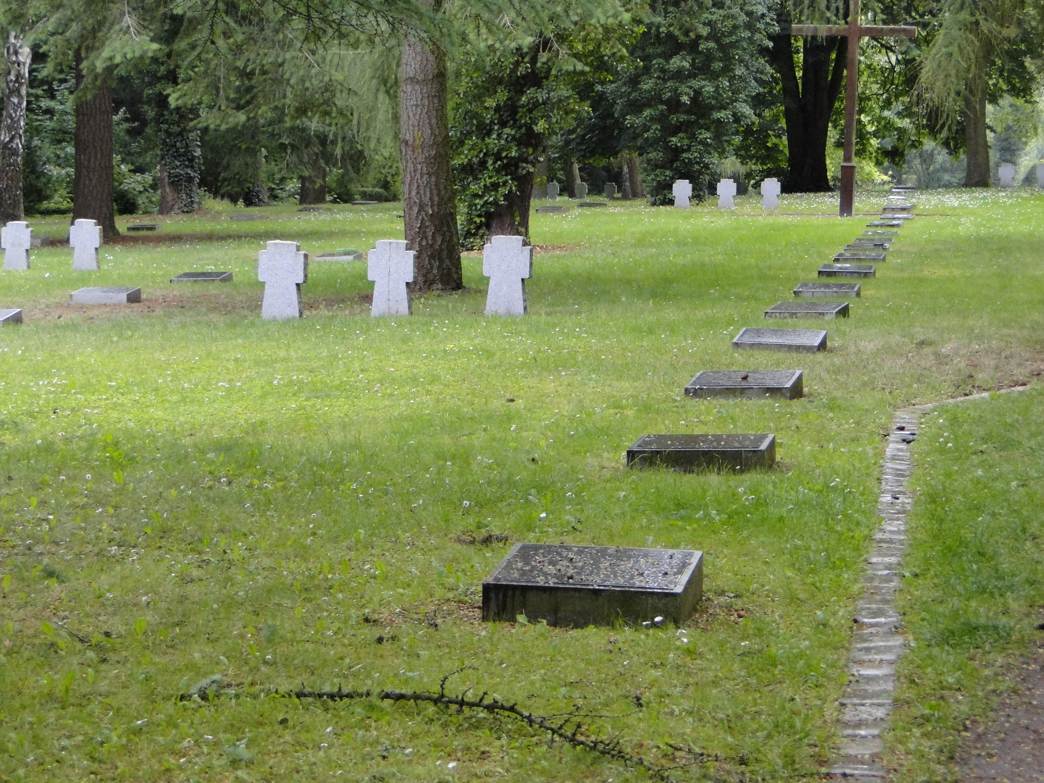 Old cemetery in Schwerin, Mecklenburg-Vorpommern, Germany